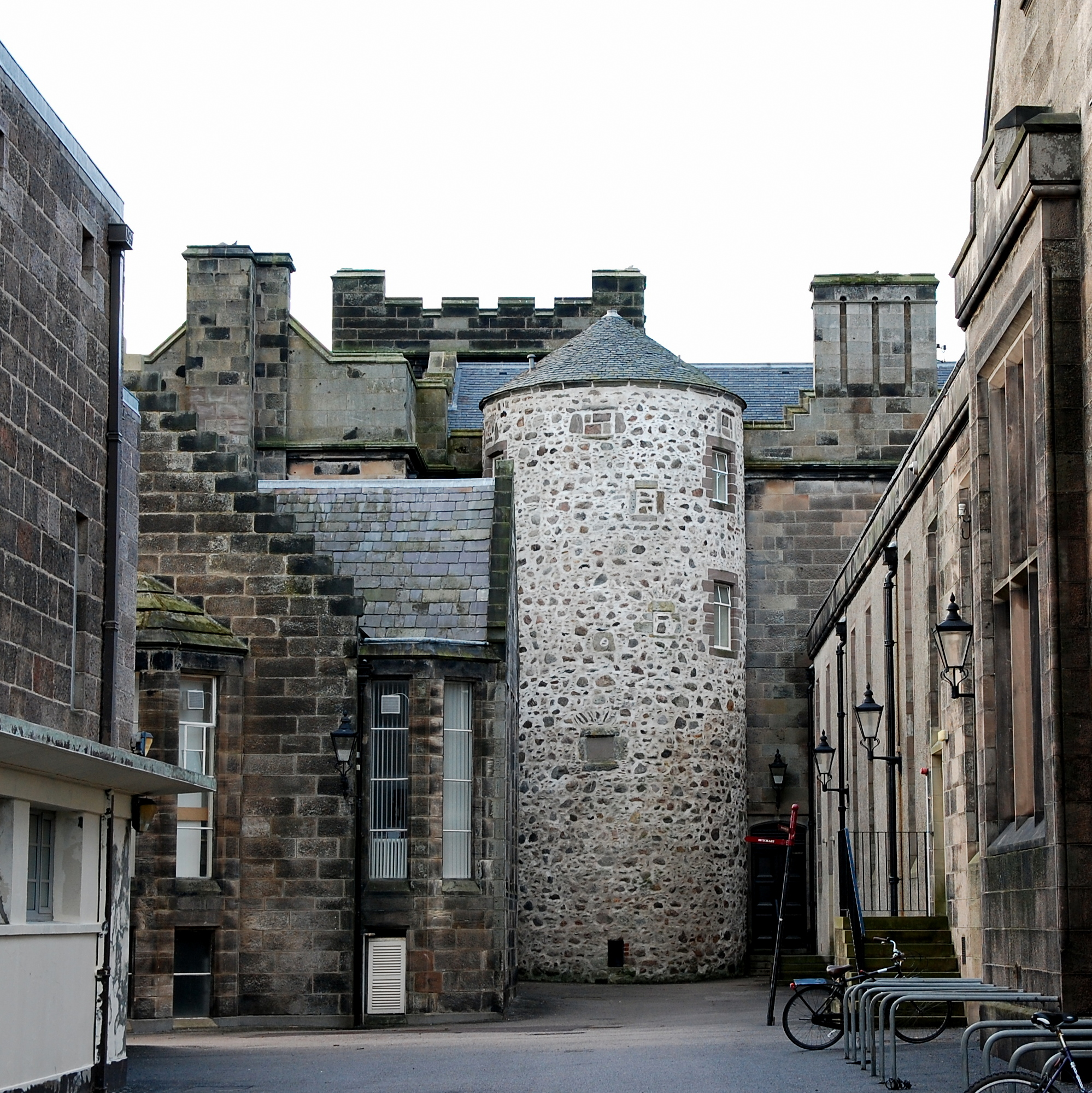 The round tower (apparently known as the Ivy Tower) from ca. 1525 is one of the oldest parts of King's College (the University of Aberdeen) but it is now almost surrounded by later buildings.